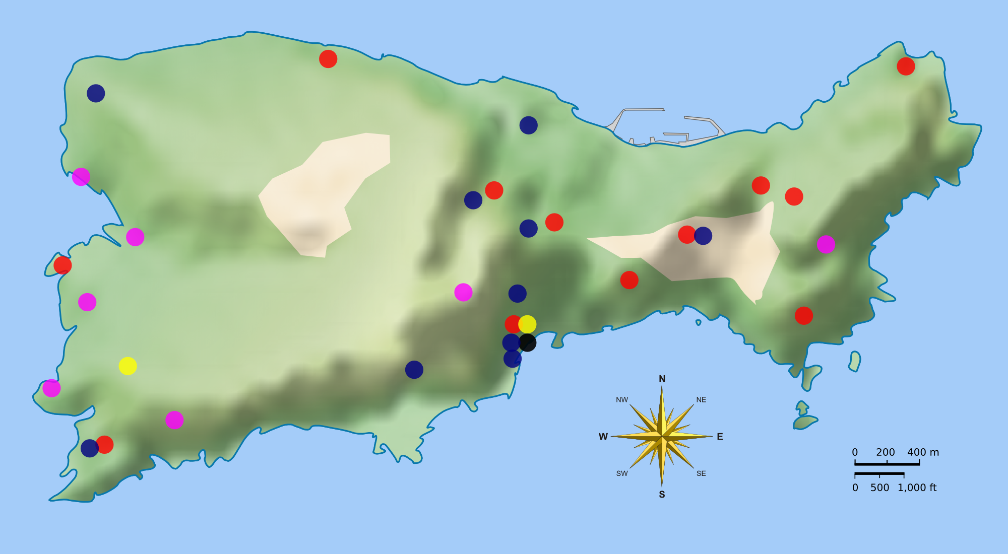 Prehistoric sites on Capri: Neolithic Chalcolithic Bronze Age Iron Age Pre- and protohistoric period (Based on